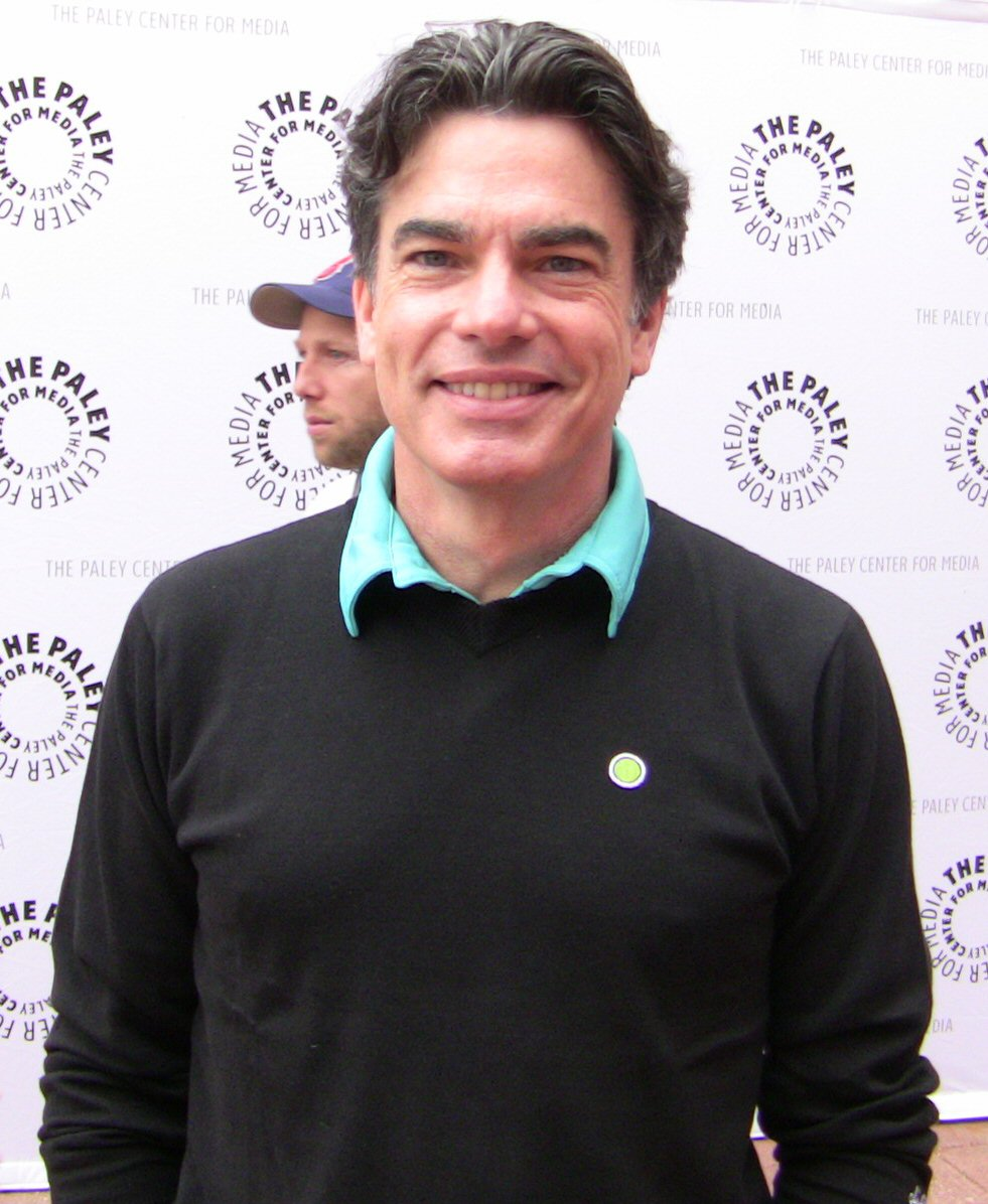 Paley Center's 6th annual celebrity golf classic, Westlake Village, Calif. - June 8, 2009